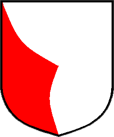 An illustration of the gore charge in heraldry, blazoned "Argent, a gore gules".